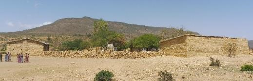 Zerfenti school 2